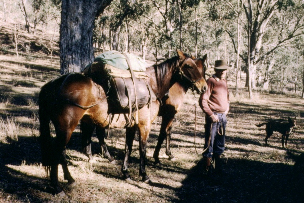 Australian stockman on mustering trip. The pack horse is carrying an army style packsaddle, together with pack bags and a swag (bedding) on top and secured by a surcingle passing over the top.